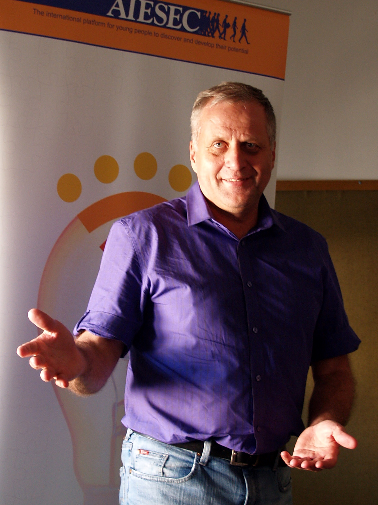 Rein Kilk, Estonian businessman.